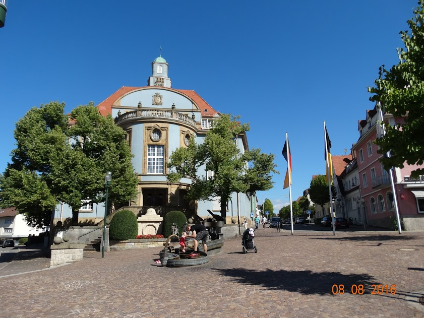 Town hall and musicians' fountain in Donaueschingen.